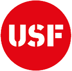 Logo of Union Syndicale Fédérale